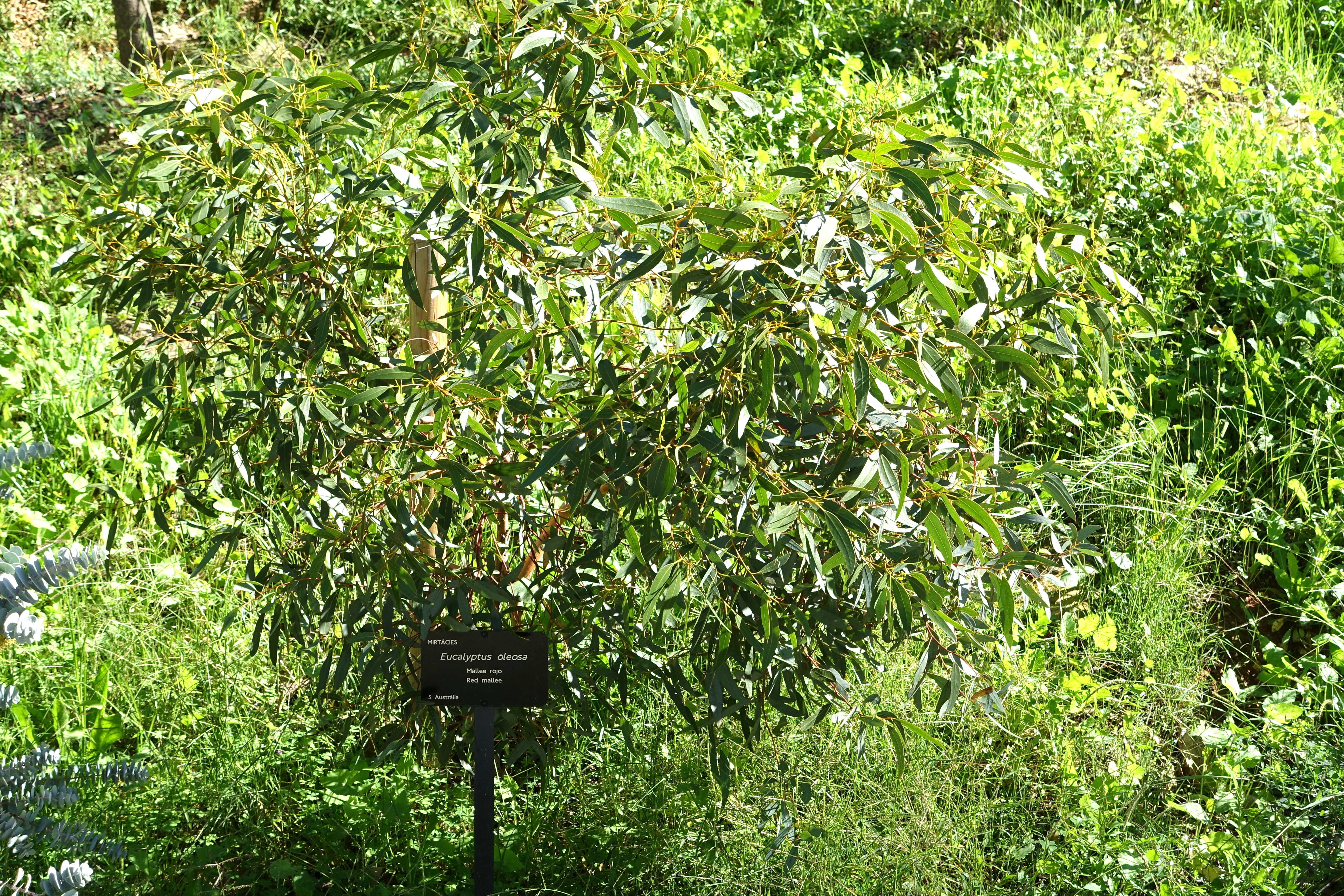 Botanical specimen in the Jardín Botánico de Barcelona - Barcelona, Spain.